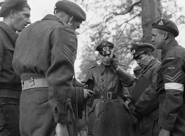 Major K. Henninger (centre), a German Army signals officer, speaking on a telephone linkup between Canadian and German forces. Sergeant J. Stacy of 1st Canadian Corps Signals is at left foreground and Corporal John Henry Osborn is at far right. Wageningen, Netherlands, 5 May 1945. Français cadien: Officier allemand se servant de la liaison téléphonique établie entre les forces canadiennes et allemandes. Sergent J. Stacy du 1st Canadian Corps Signals est à l'avant gauche et le corporal John Henry Osborn sur la droite. Weningen, Pays-Bas, 5 Mai 1945.